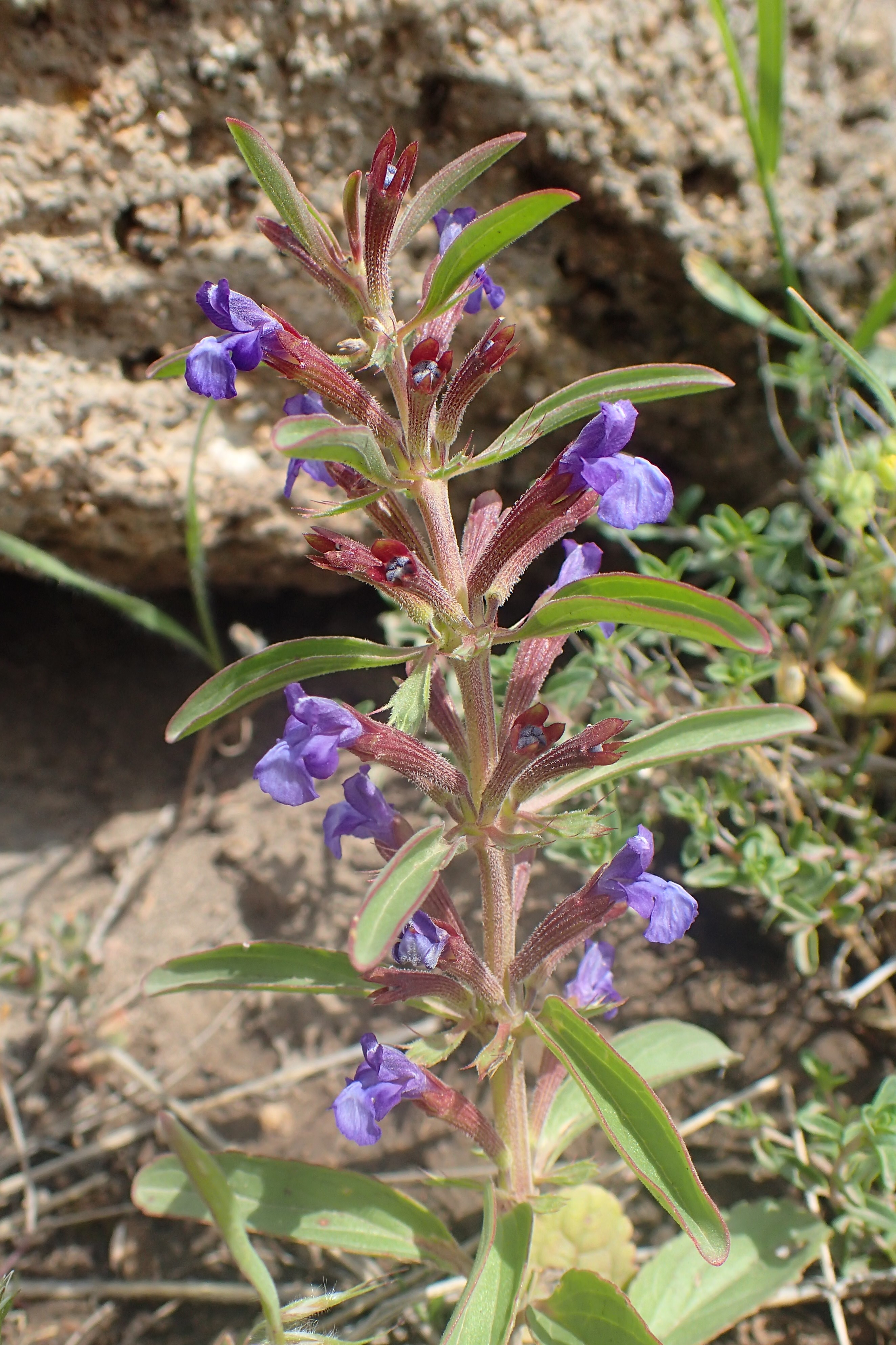 Lallemantia iberica in Mastara (Armenia)